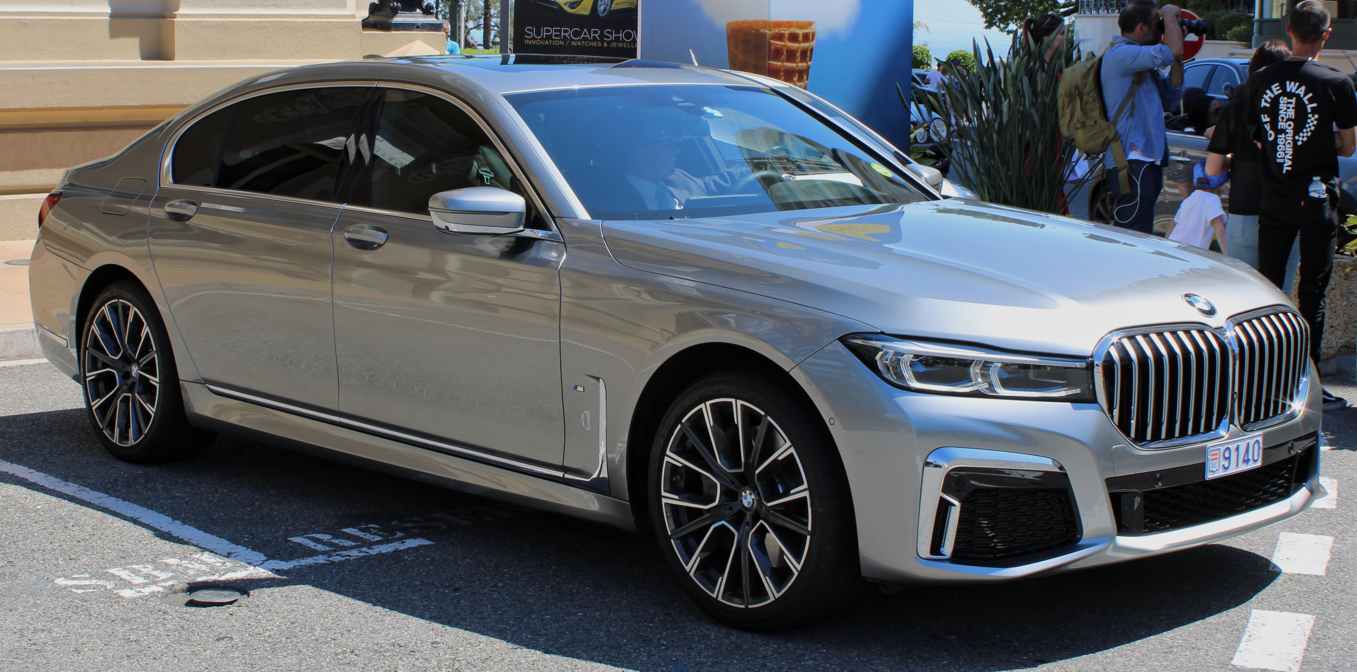 BMW 745Le in Monaco